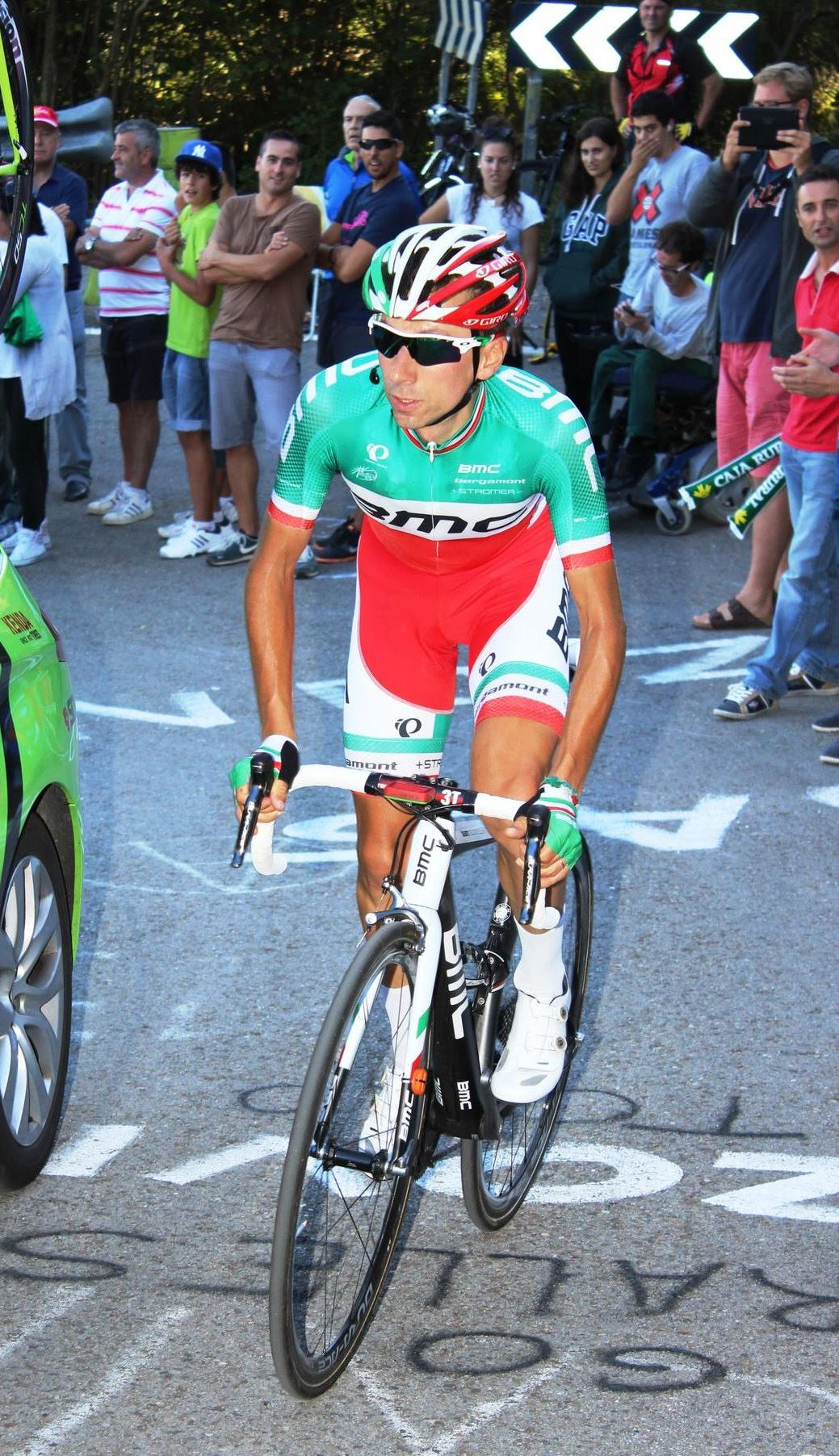 The italian cyclist, Ivan Santaromita